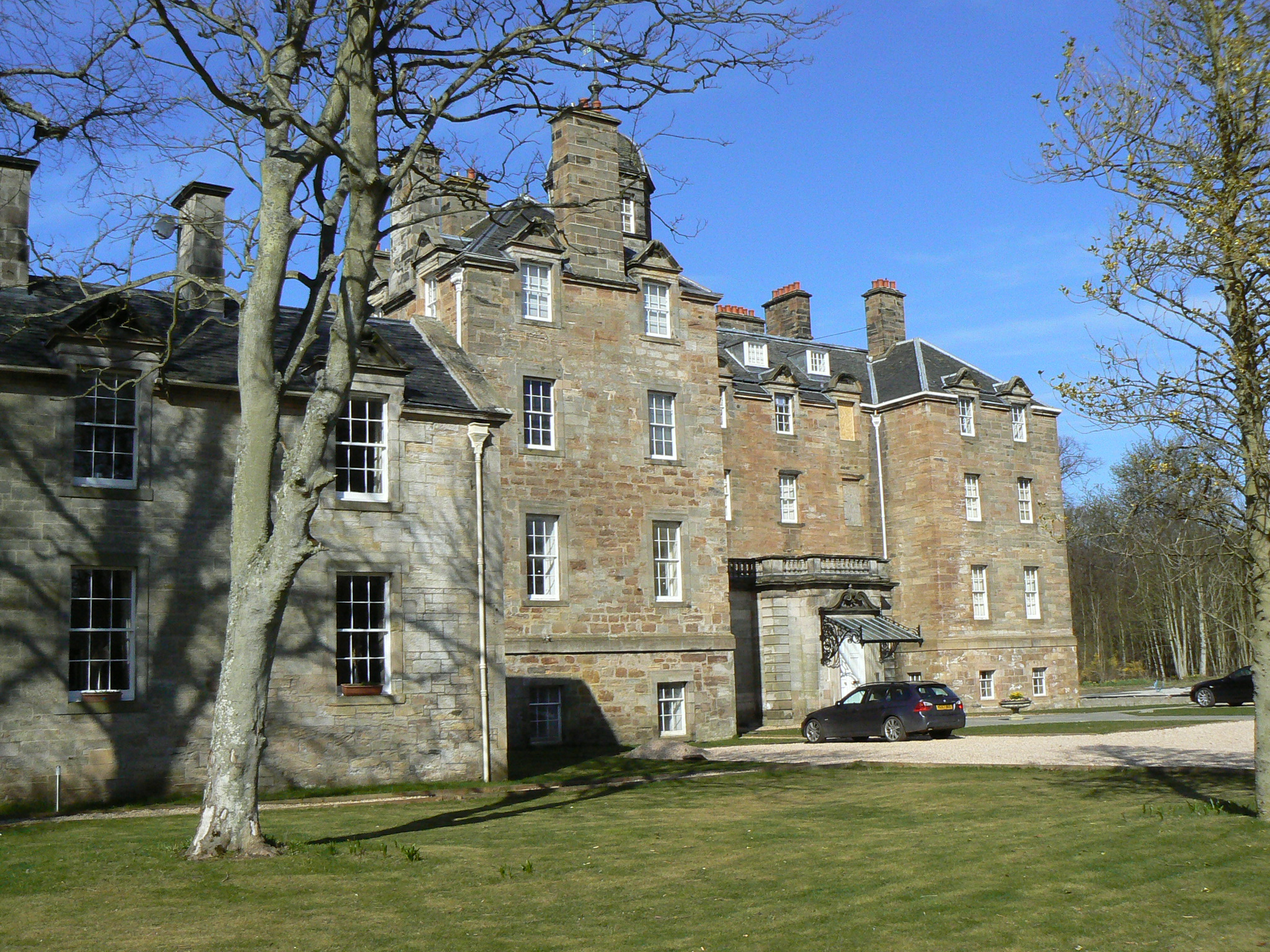 Elie House Elie House was built by Sir William Anstruther, who bought the estate in or about 1697. It changed owbership several times, being for a period after WW2 in use as a convent. Its latest reincarnation is as a block of residential apartments.